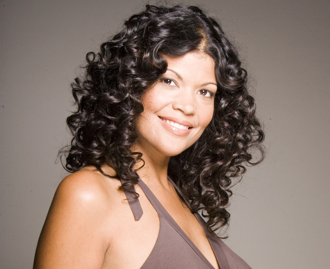 Comedian, Actress, Writer, Producer, Aida Rodriguez